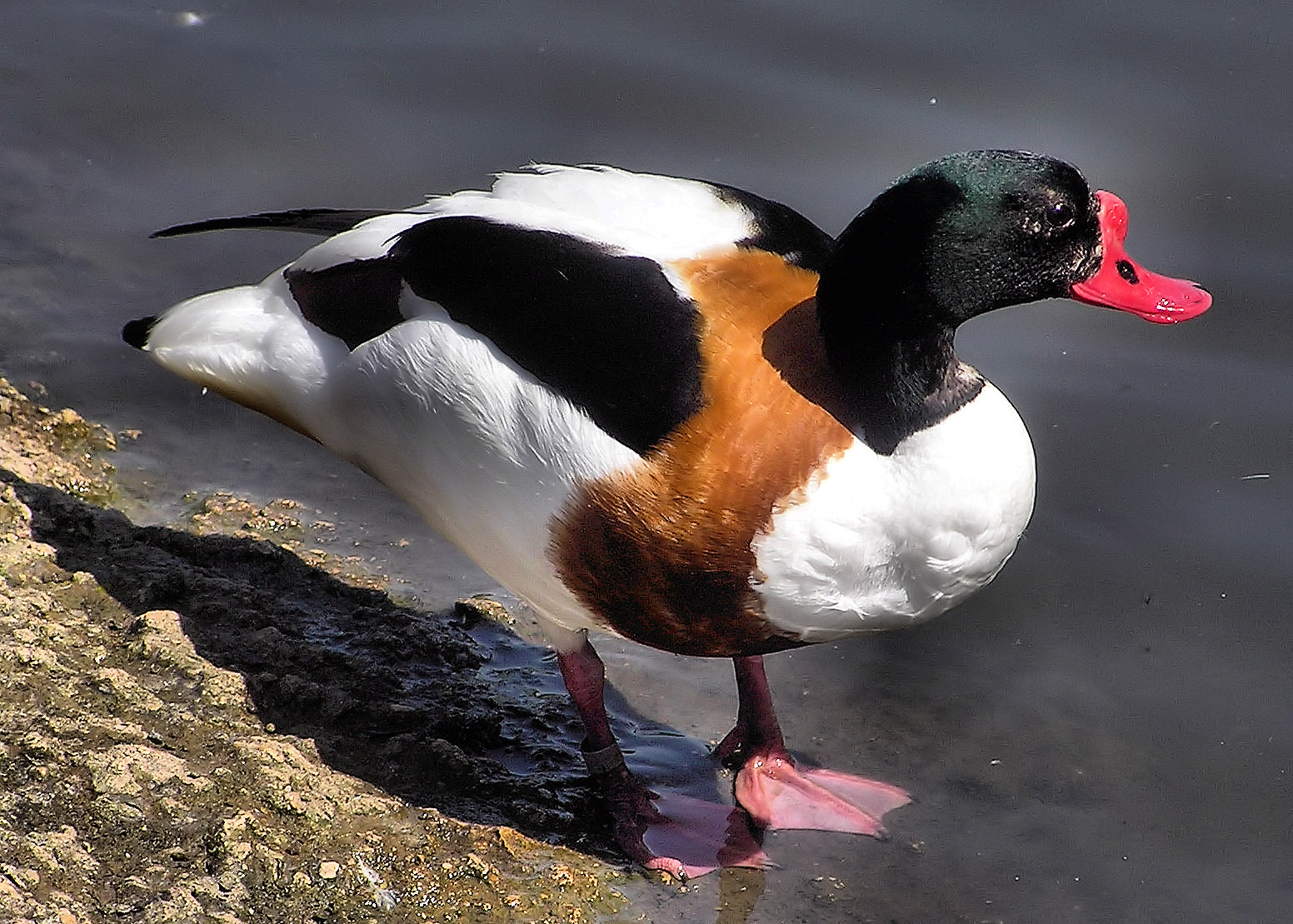 Common Shelduck Tadorna tadorna at the Wildfowl and Wetlands Trust, Slimbridge, Gloucestershire, England.